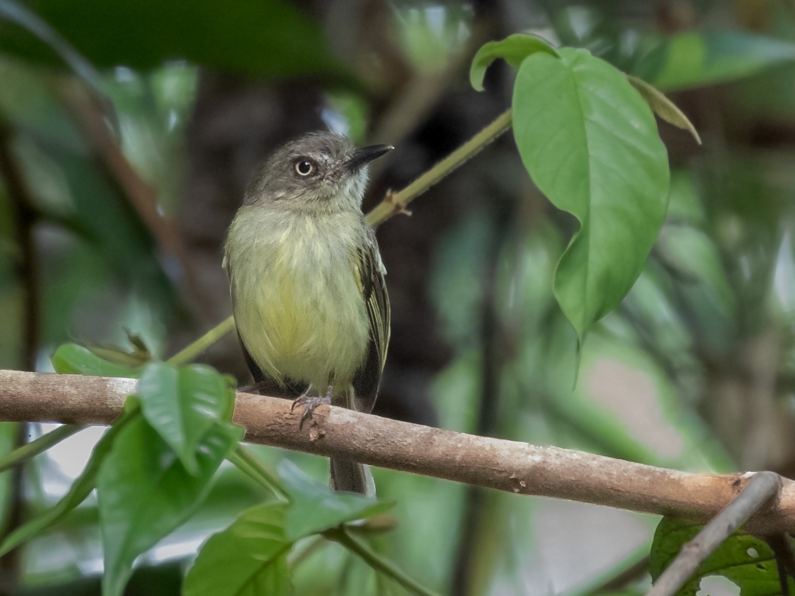 Johannes's Tody-Tyrant; Cruzeiro do Sul, Acre, Brazil